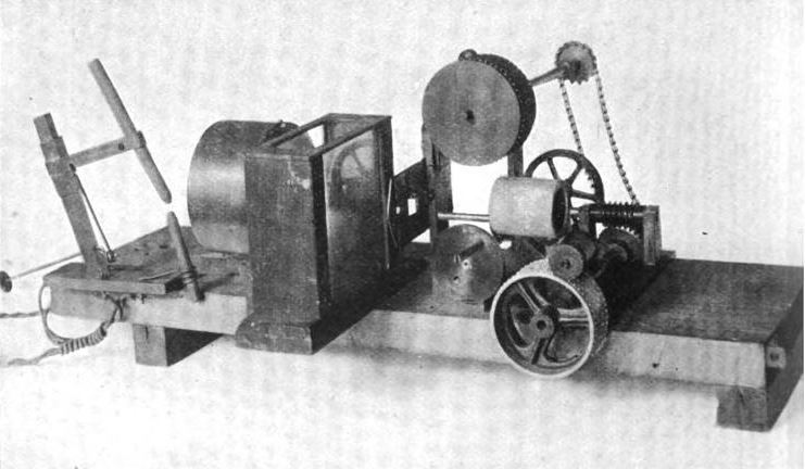 Phantascope. Image captioned "Original Jenkins Lateral Projector," page 46, in article "History of the Motion Picture" by C. Francis Jenkins, Transactions of the Society of Motion Picture Engineers, No. 11 (1921). Article says projector made in 1895.